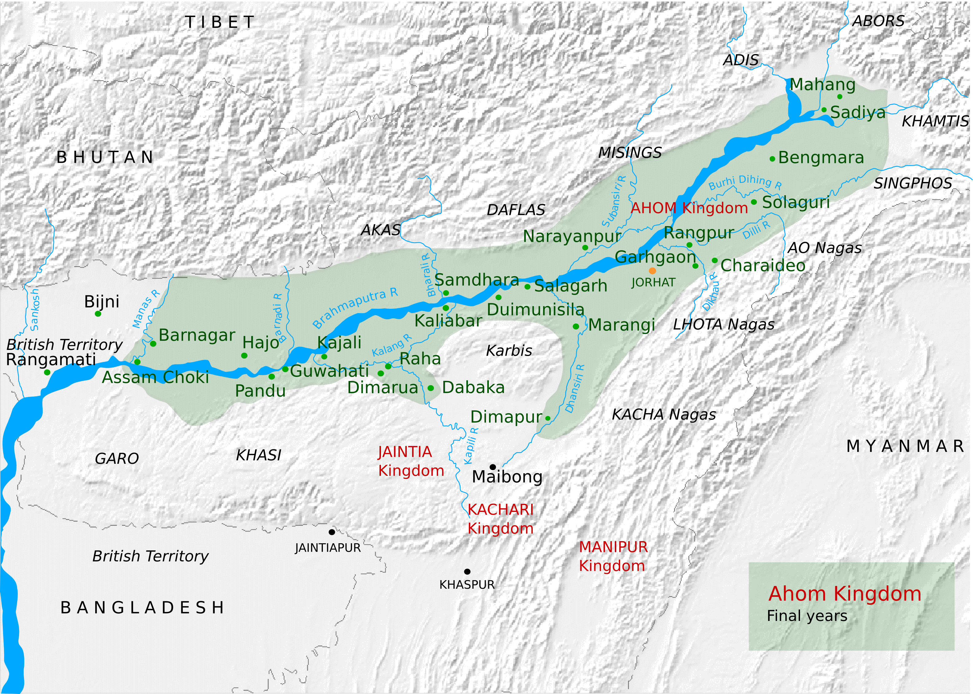 The Ahom Kingdom, c1826